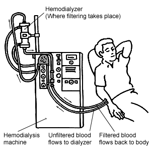 Guy getting hemodialysis